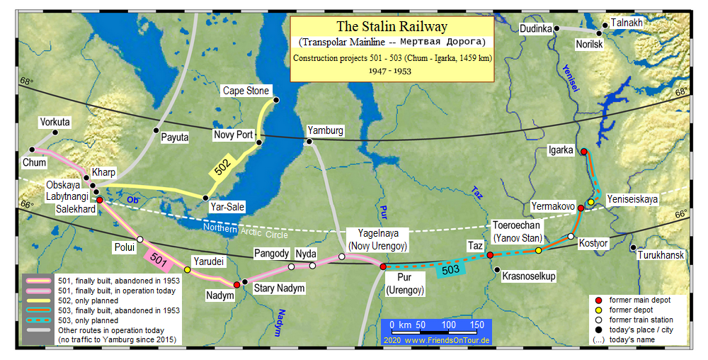 The map shows the implementation of the Soviet railway construction projects No 501 to 503. Additional are shown all railways lines that were planned or implemented before or after the No 501-503 lines.